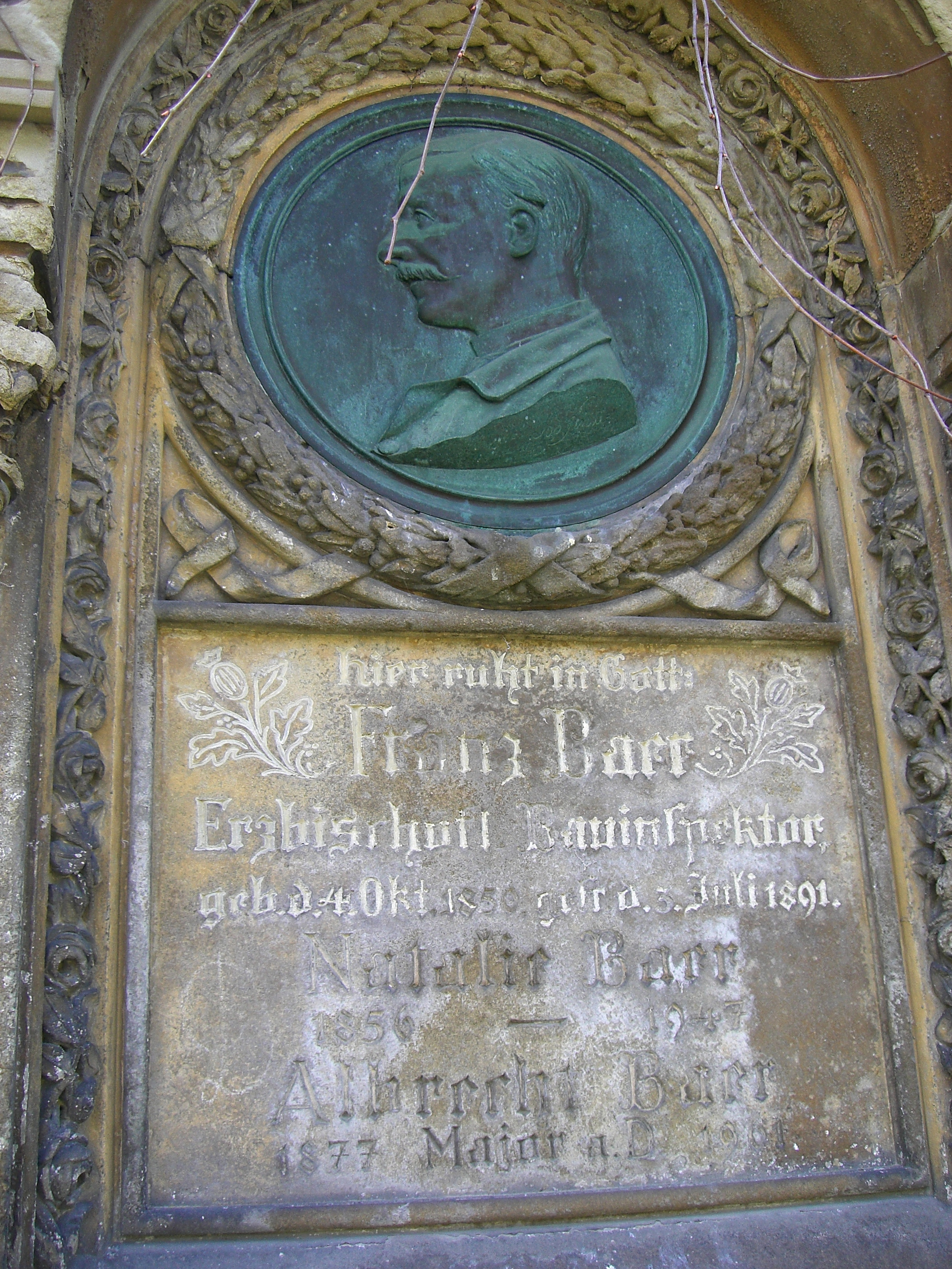 Grave realised by sculturers Gustav Adolf Knittel and Walliser.